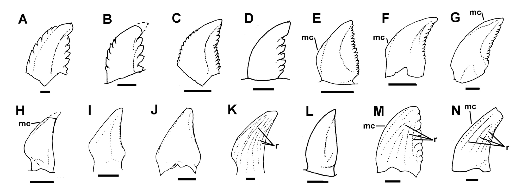 Illustrations of multiple troodontid teeth crowns. A. Troodon formosus, ANSP 9259 (holotype), isolated crown. B. Troodontidae, TMP 83.12.11, isolated crown. C. Zanabazar junior, GIN 100/1 (holotype), premaxillary crown. D. Zanabazar junior, GIN 100/1 (holotype), mesial maxillary crown. E. Sinornithoides youngi, IVPP V9812 (holotype), mesial dentary crown. F. Zanabazar junior, GIN 100/1 (holotype), distal dentary crown. G. Zanabazar junior, GIN 100/1 (holotype), distal maxillary crown. H. Sinornithoides youngi, IVPP V9812 (holotype), mesial maxillary crown. I & J. Non-theropodan teeth whose identities will be revealed at a later date. K. Paronychodon lacustris, morphotype B, isolated crown. L. Byronosaurus jaffei, GIN 100/983 (holotype), mesial maxillary crown. M. Troodontidae, TMP 2000.21.11, isolated crown. N. Euronychodon, isolated crown.